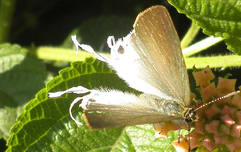 Drab in comparison with male which has Blue in lieu of brown.